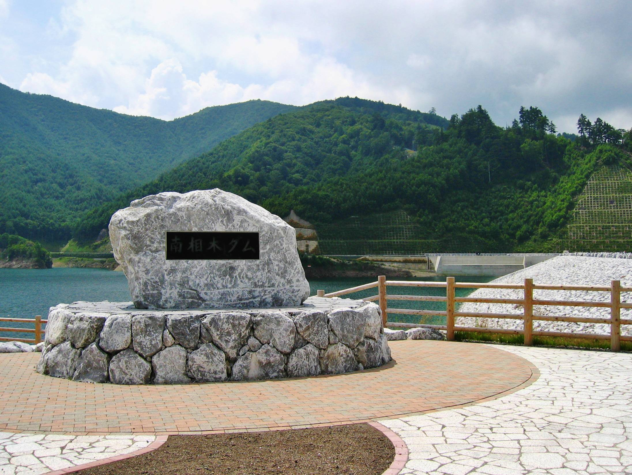 Minamiaiki Dam.